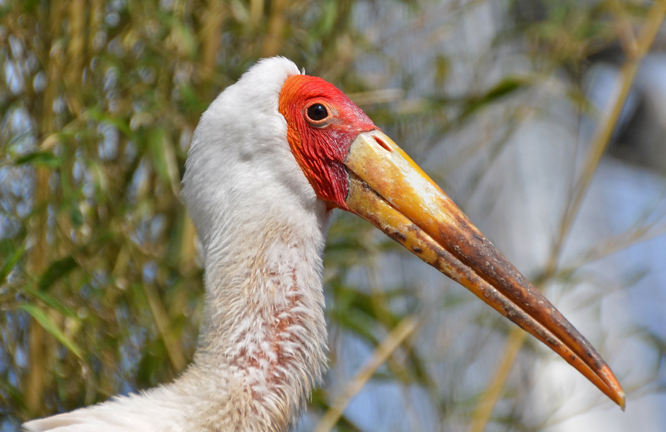 Yellow-billed stork (Mycteria ibis)